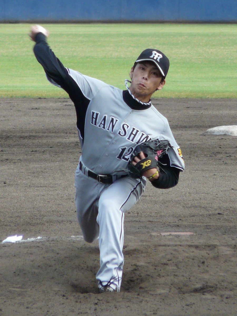 Ryo Watanabe